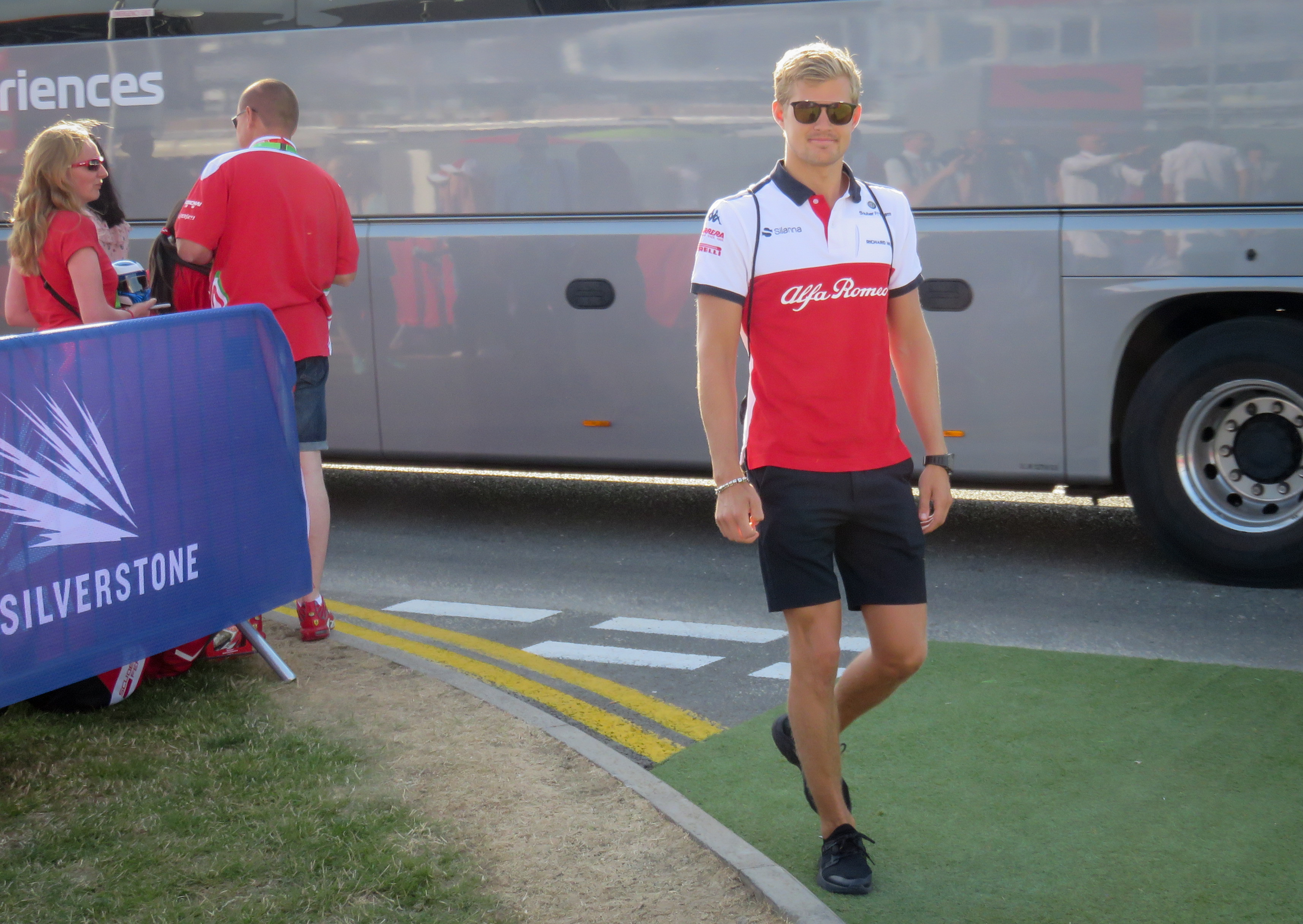 Marcus Ericsson, British GP 2018